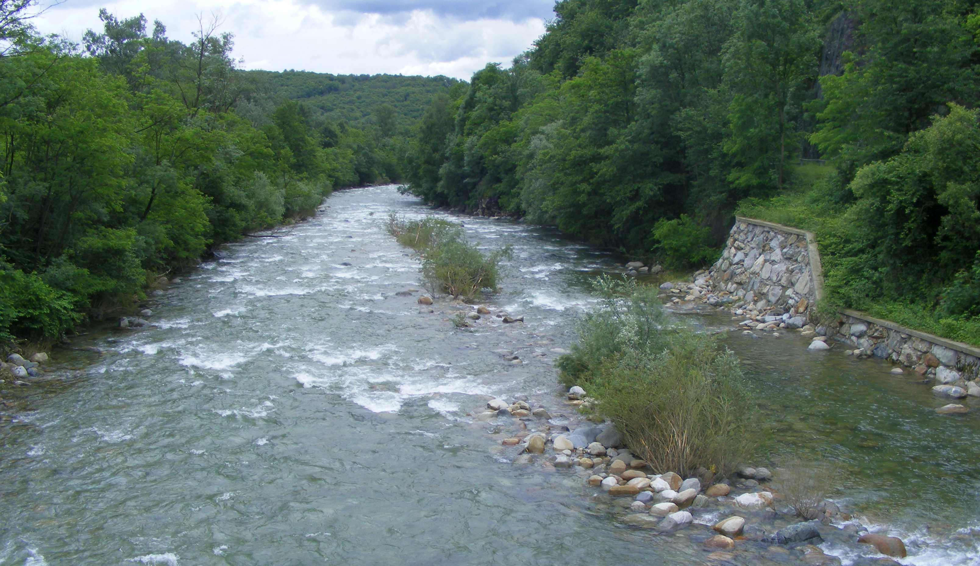 Chiusella creek between Vistrorio and Issiglio (TO, Italy)